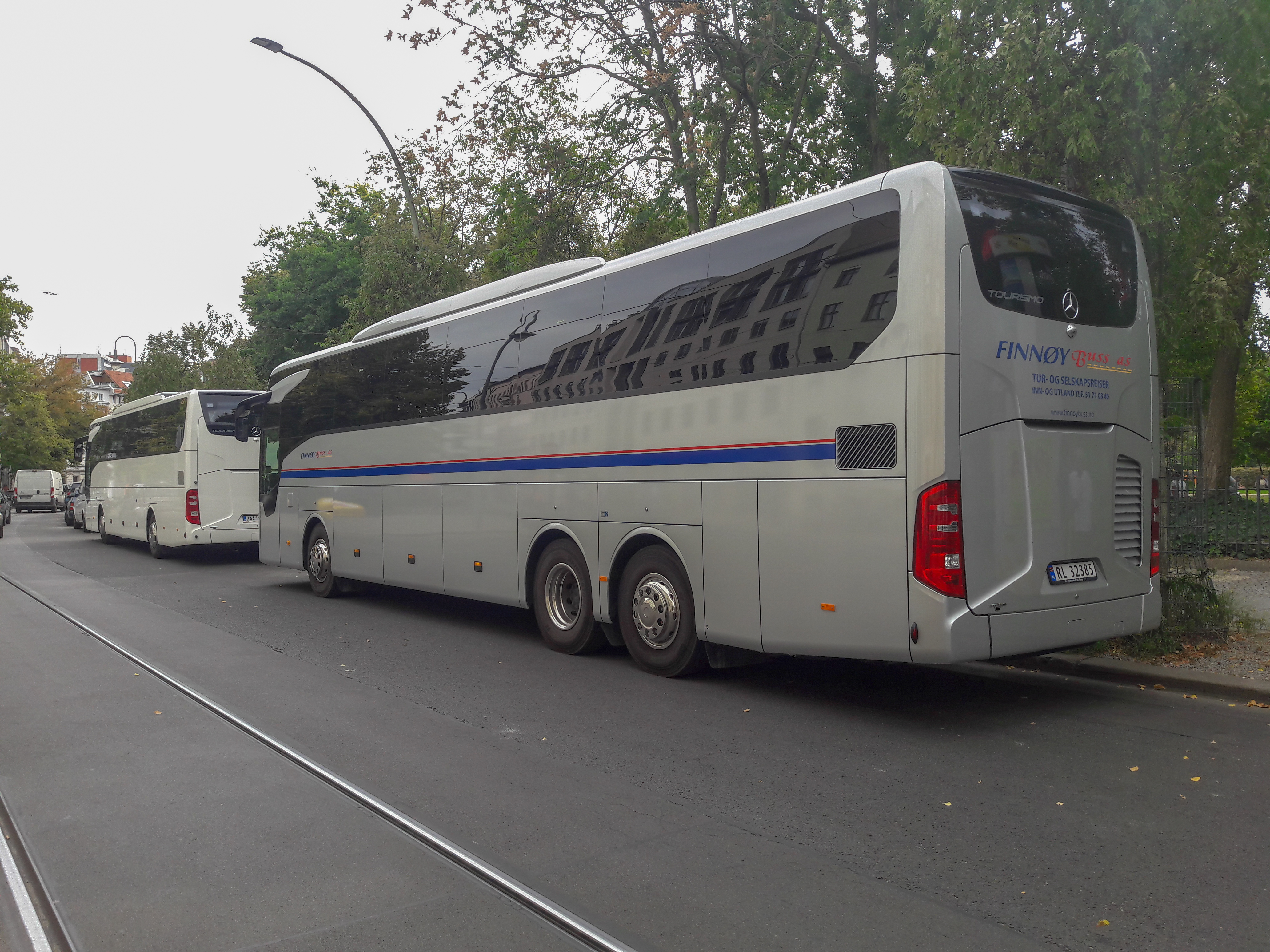 Mercedes-Benz Tourismo